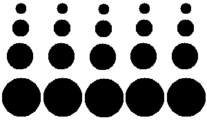 Gradient Multi-Layer nanofilm